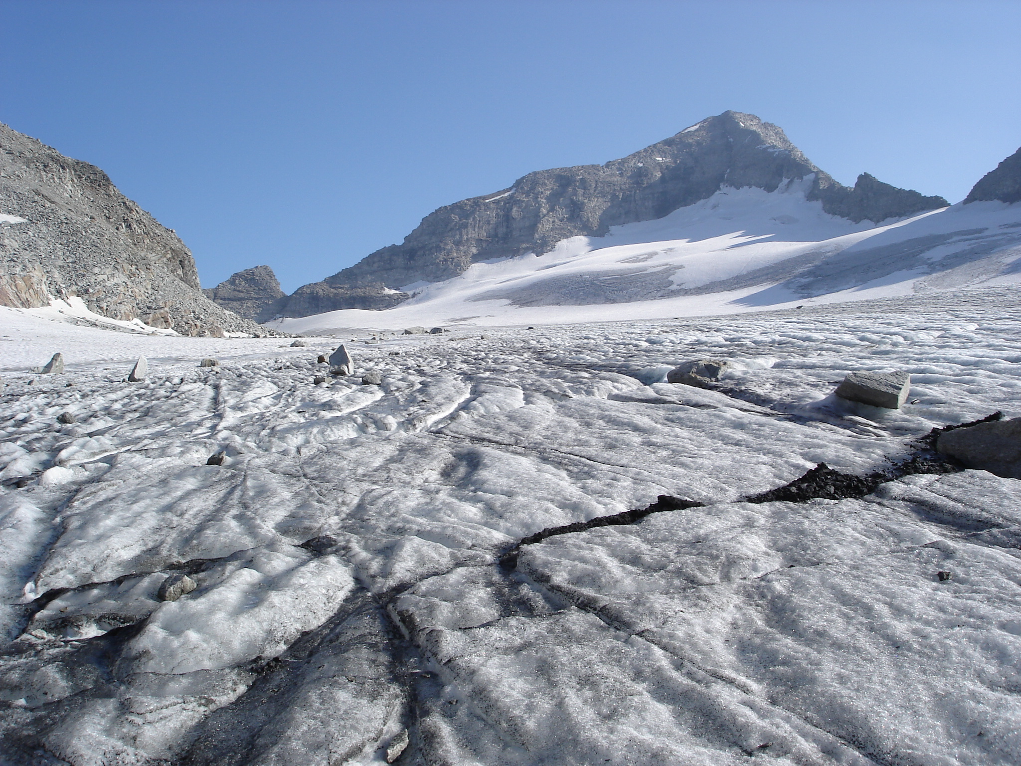 Schrammacher south face as seen from Stampflkees; Sagwandspitze to the left; Oberschrammacherscharte to the right